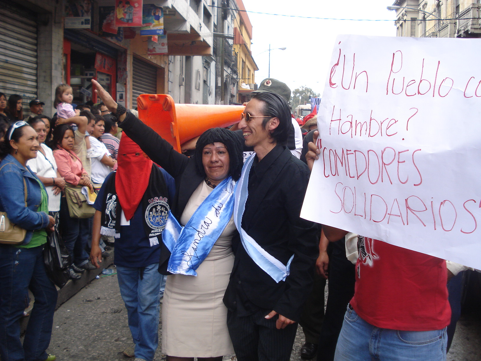 Satirical representation of the president and his wife during the Huelga de Dolores in Guatemala City.